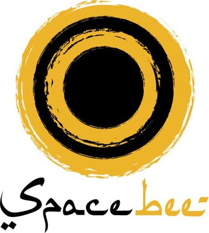 Space Bee Logo